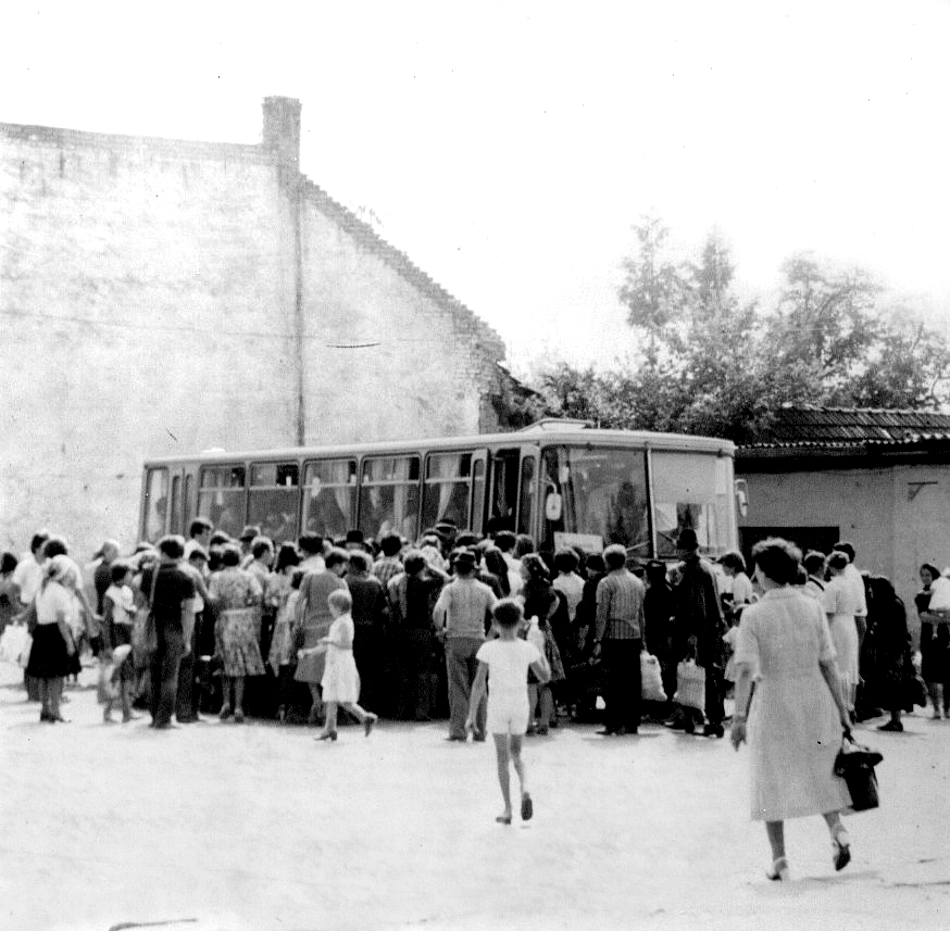 Car to Sighet in Baia-Mare, Romania, Ceausescu's time